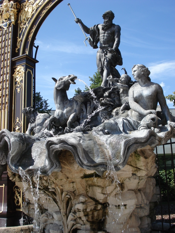 Nancy. In summer 2006 - fot 5